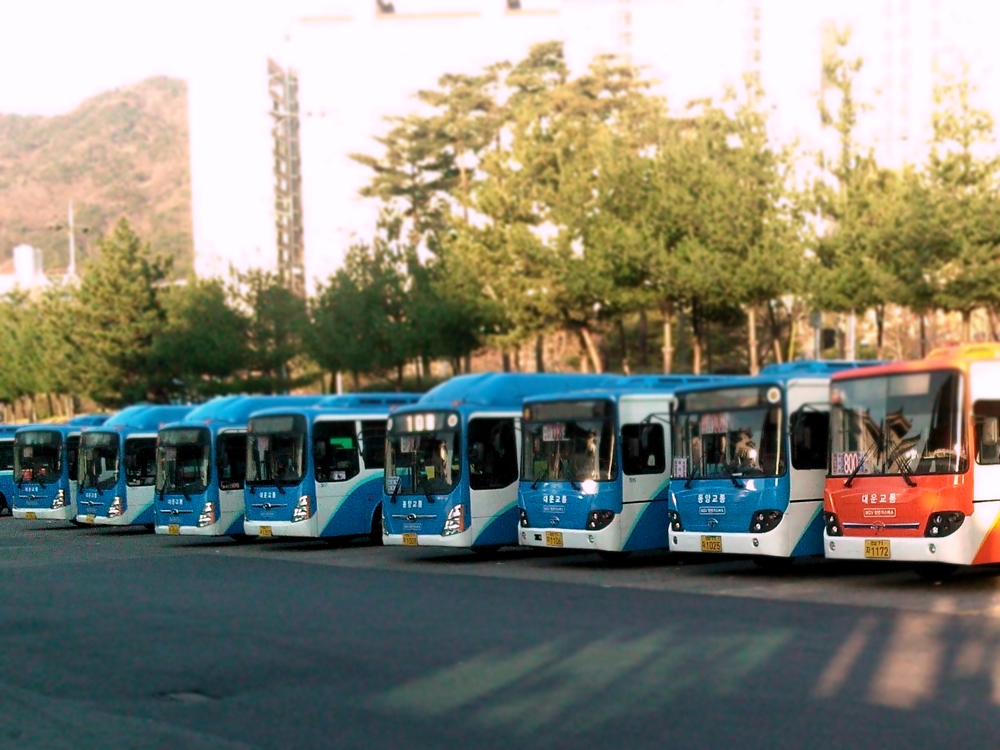 Bus garage in Changwon, South Korea.